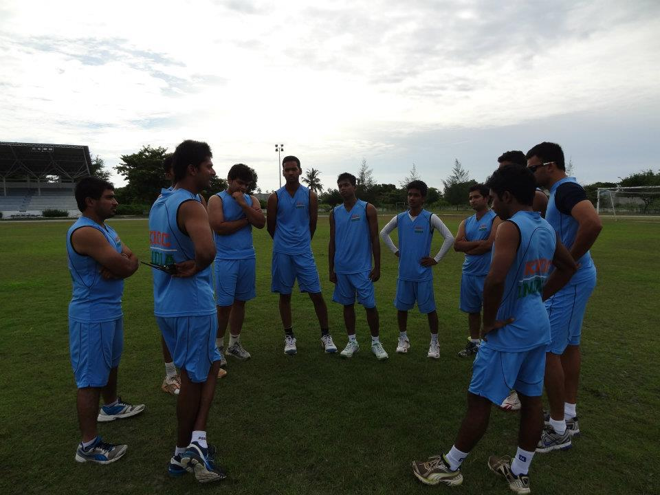 h5hthjtjtyj